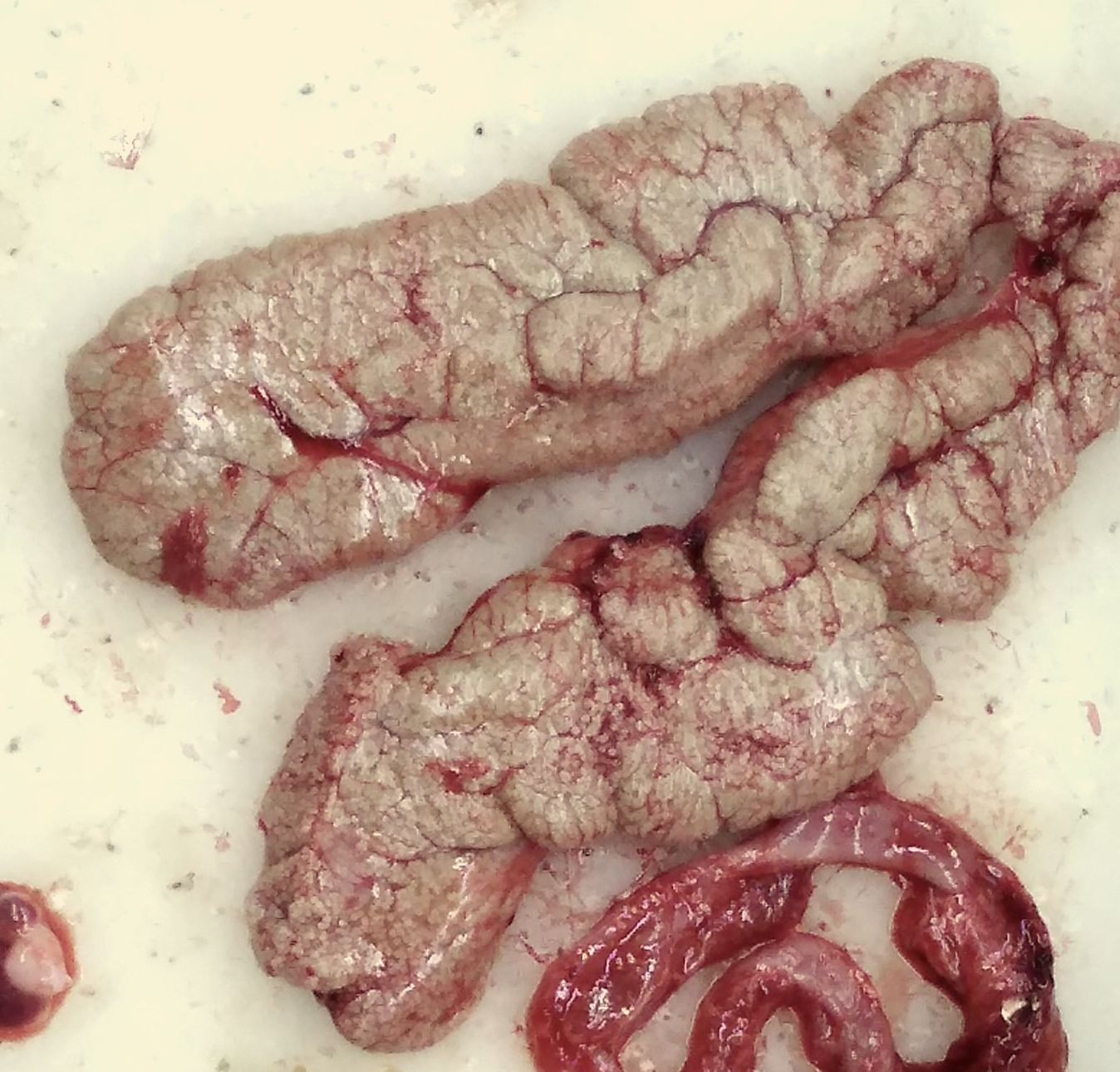 a pair of fresh ovaries of Cyprinus carpio placed in dissecting dish